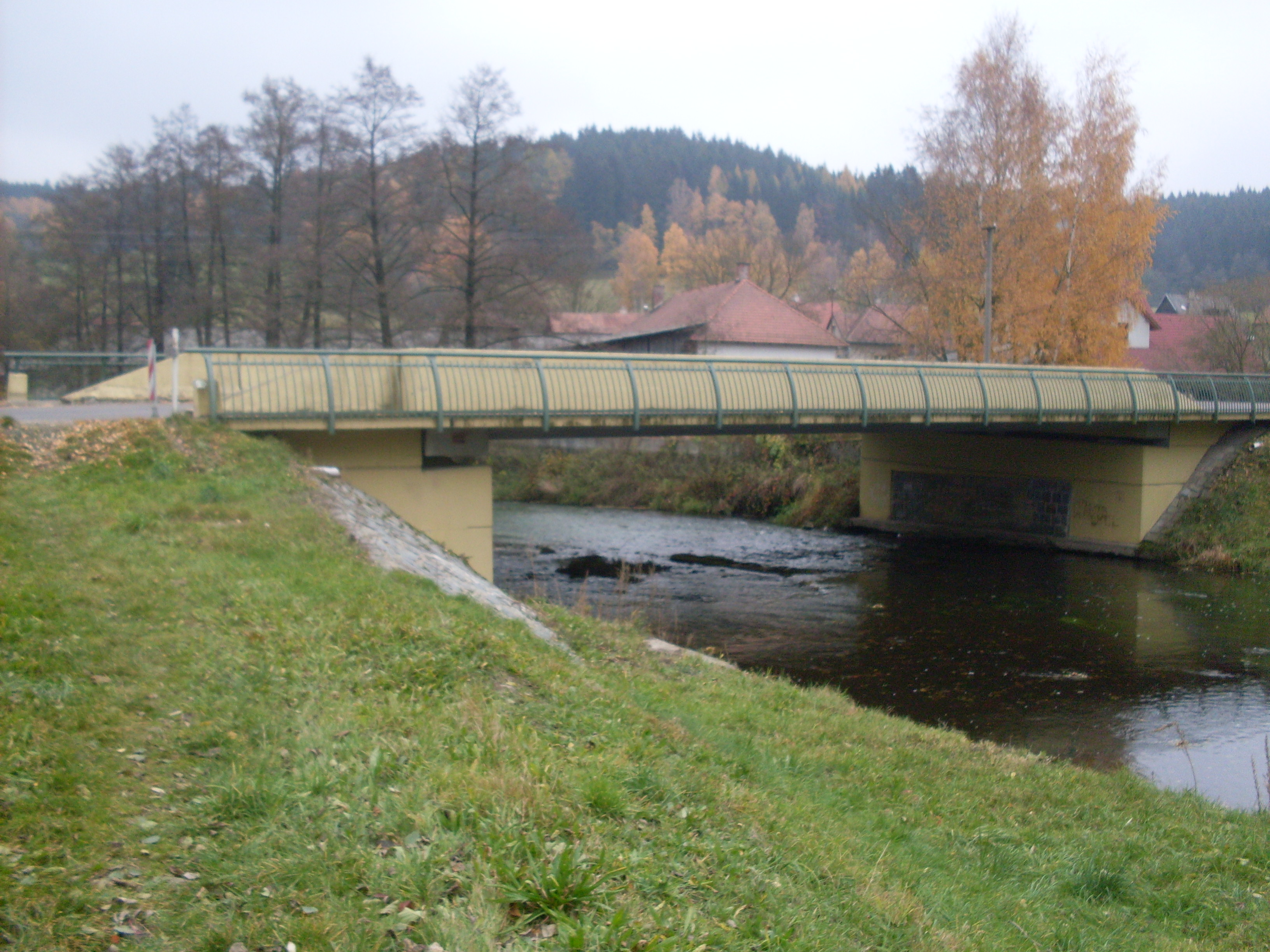 The new bridge in Bojanov, built in 1998